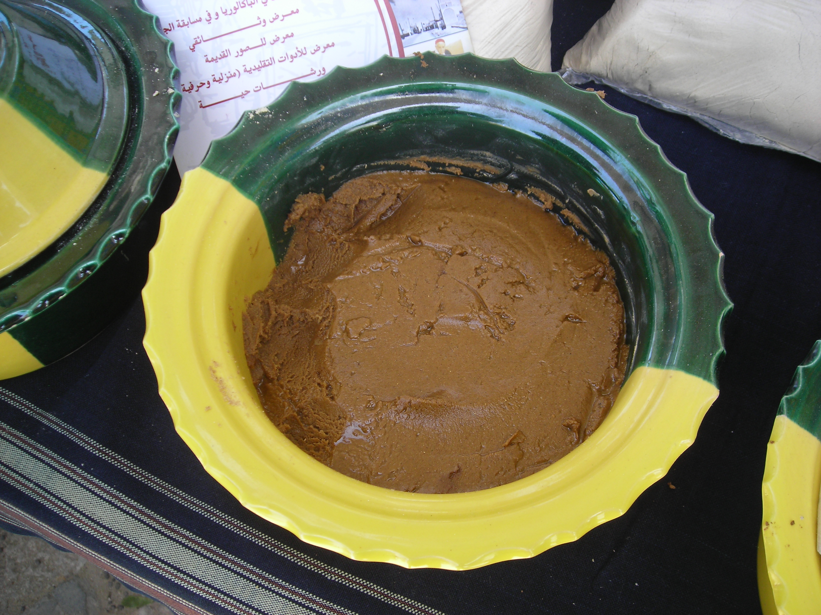 Bsissa